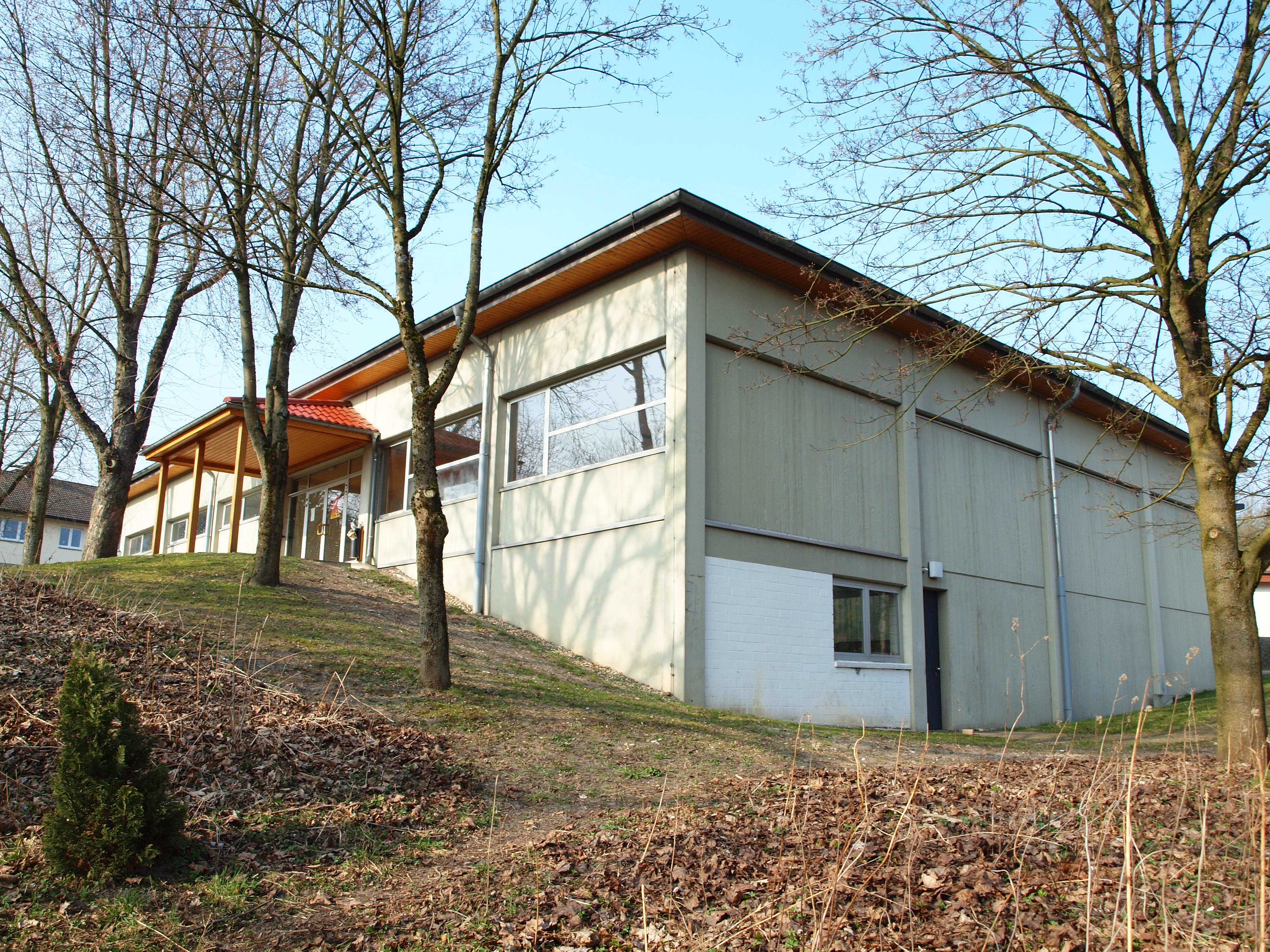 Strothetalhalle (hall) in Kohlstädt